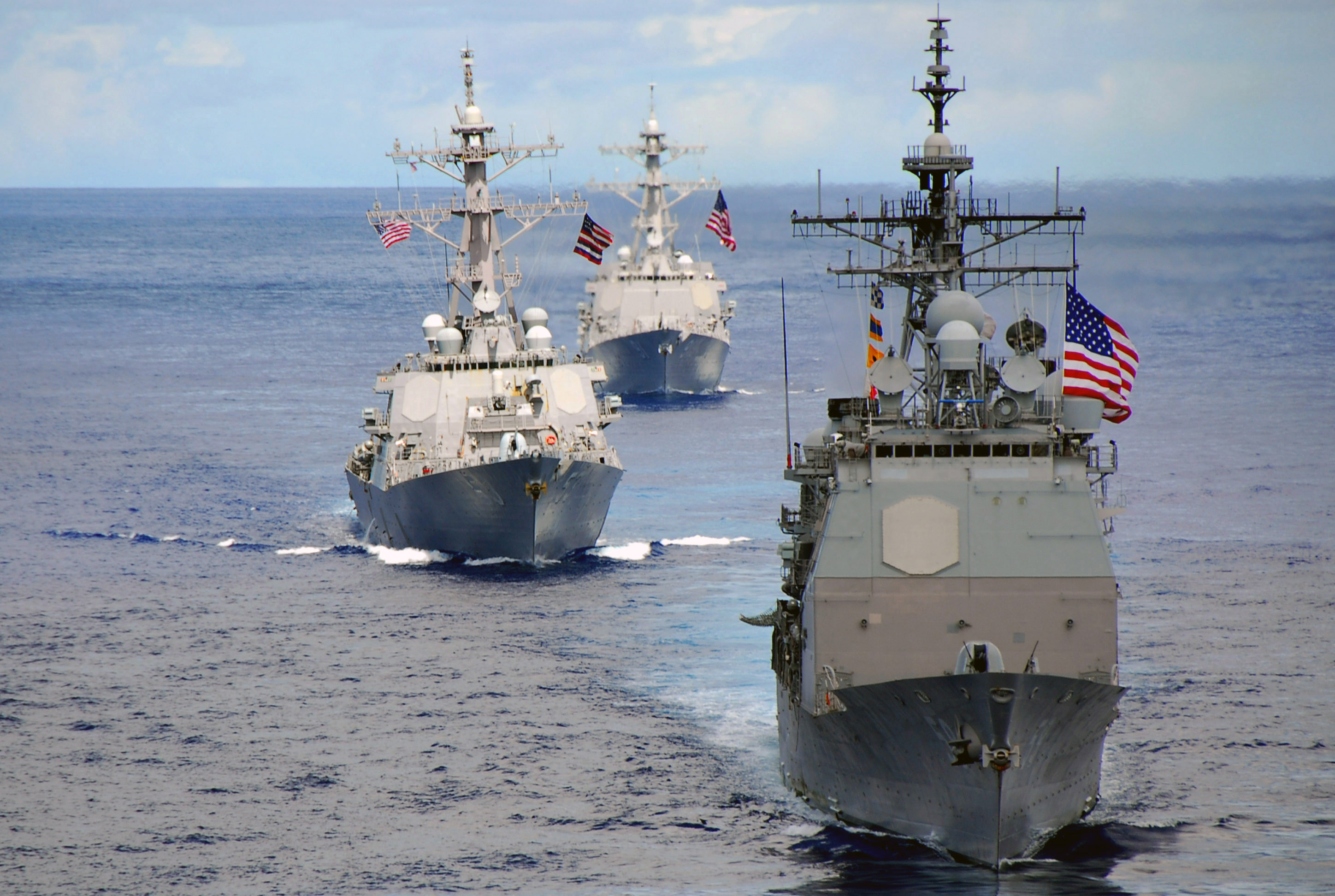 PACIFIC OCEAN (Aug. 14, 2007) - USS Princeton (CG 59), USS John Paul Jones (DDG 53) and USS Pinckney (DDG 91) transit behind the nuclear-powered aircraft carrier USS Nimitz (CVN 68) during a joint photo exercise marking the conclusion of Valiant Shield 2007 (VS07). The Nimitz Carrier Strike Group (CSG) and embarked Carrier Air Wing (CVW) 11 are deployed in the U.S. 7th Fleet. Valiant Shield 2007 was the largest joint exercise in recent history, including 30 ships, more than 280 aircraft, and more than 20,000 service members from the Navy, Marines Corps, Air Force and Coast Guard. U.S. Navy photo by Mass Communication Specialist 3rd Class Eduardo Zaragoza (RELEASED)